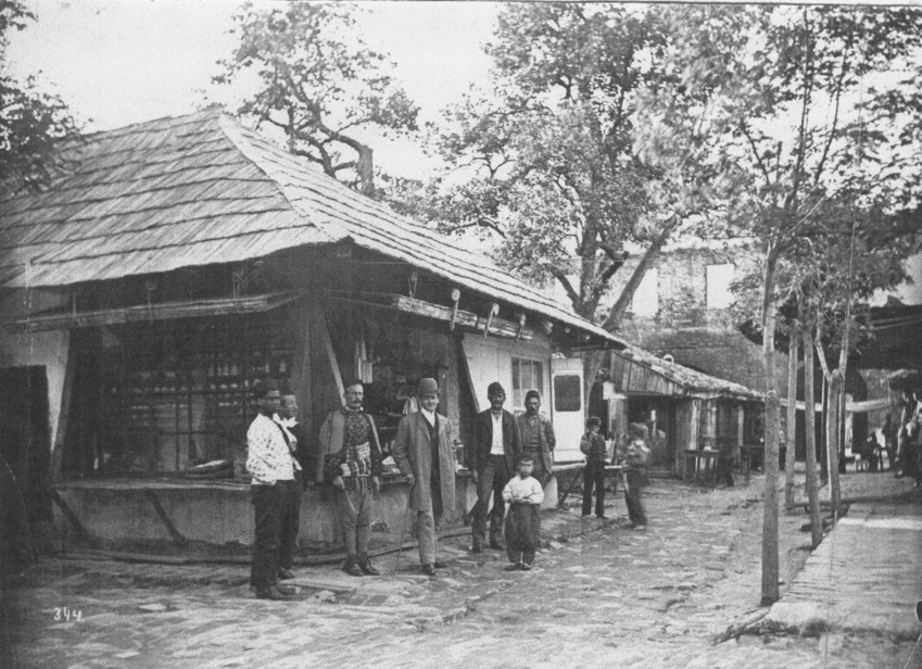 the Bazaar of the Island of Ada Kaleh toward the end of the 19th century